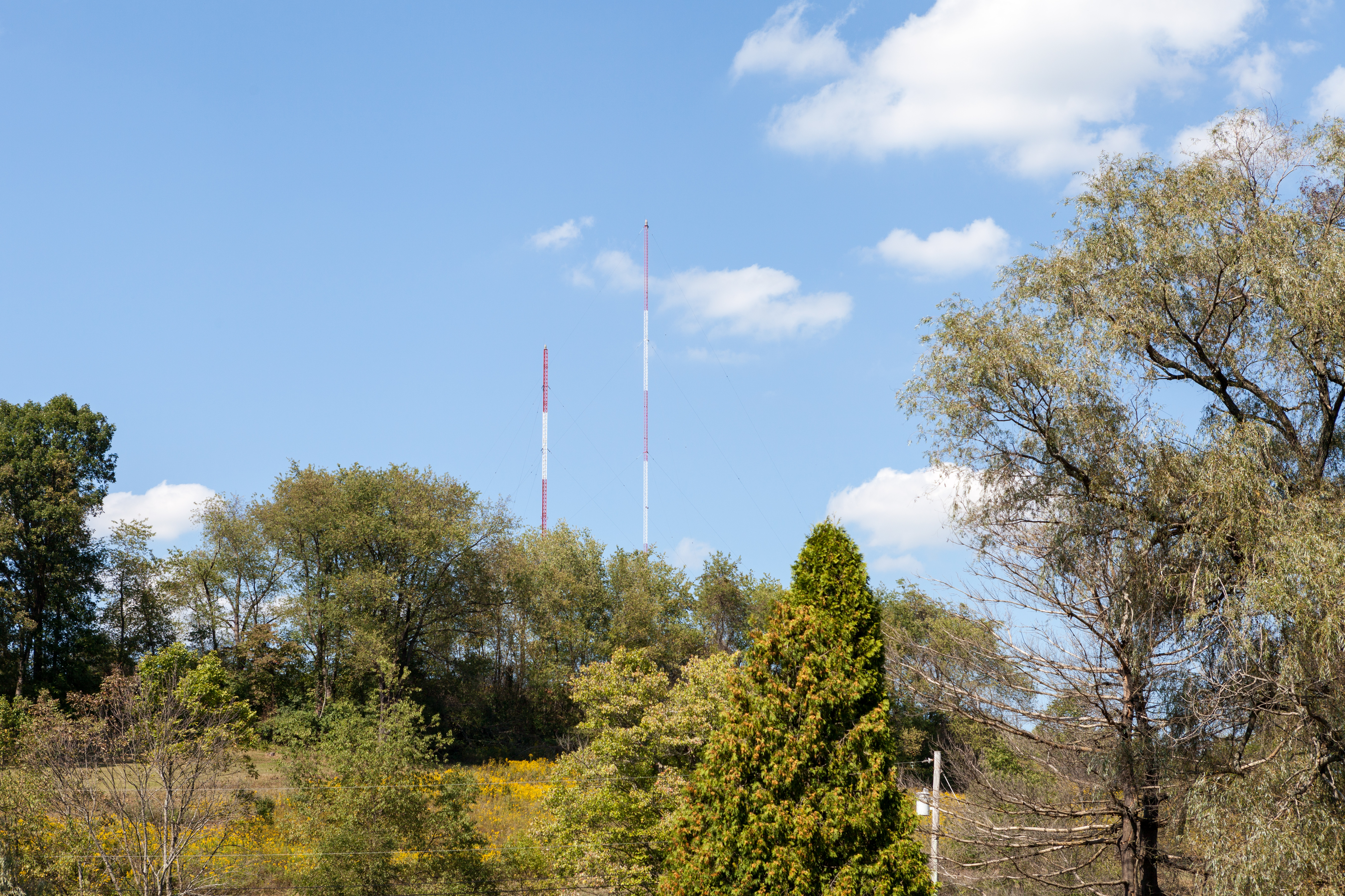 The two-antenna directional array for WAVL in Apollo, Pennsylvania. Seen from Kings Road, looking north.